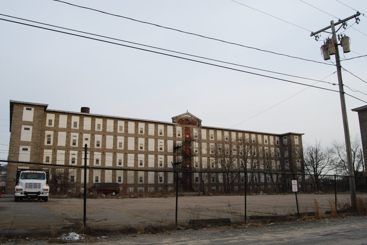 Flint Mill #1. Fall River, Massachusetts Built in 1882, after first mill burned.